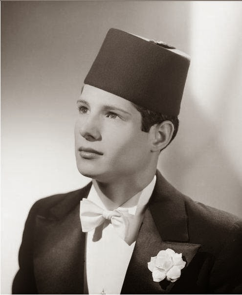 A photo of the Algerian singer Salim Halali (1920-2005) taken during his youth (ca 1930s).